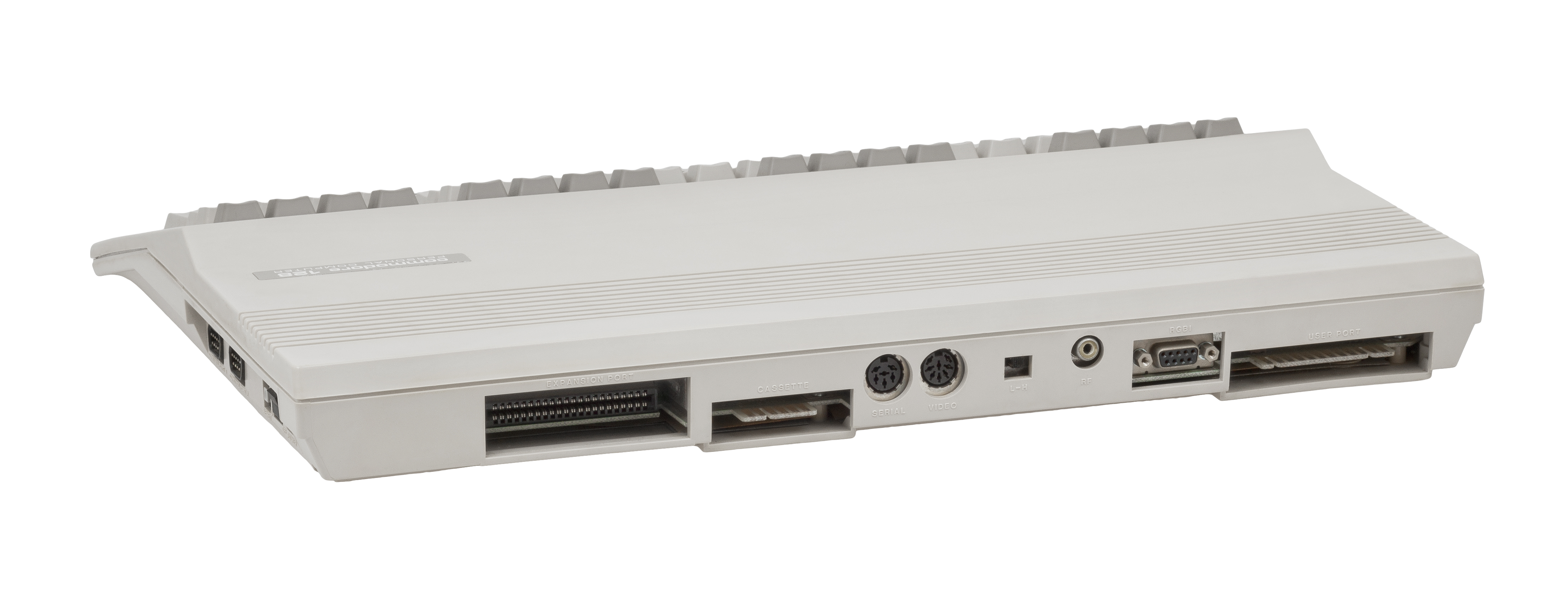 The back of the Commodore 128, an 8-bit computer released by Commodore Business Machines in 1985. A successor to the popular Commodore 64.